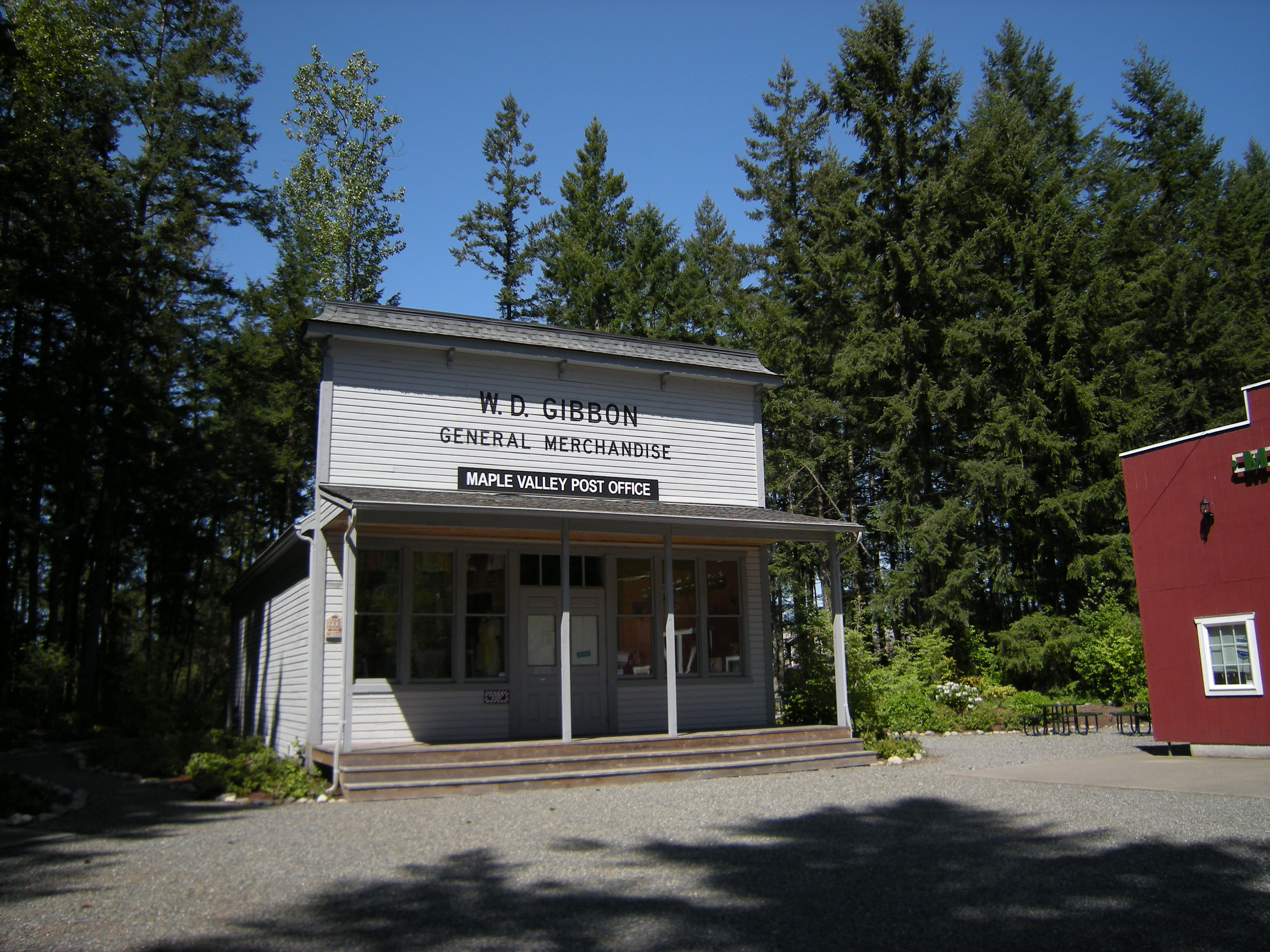 Gibbons-Mezzavilla General Store. Part of a small museum complex operated by the Maple Valley Historical Society, near the Maple Valley Community Center, Maple Valley, Washington.